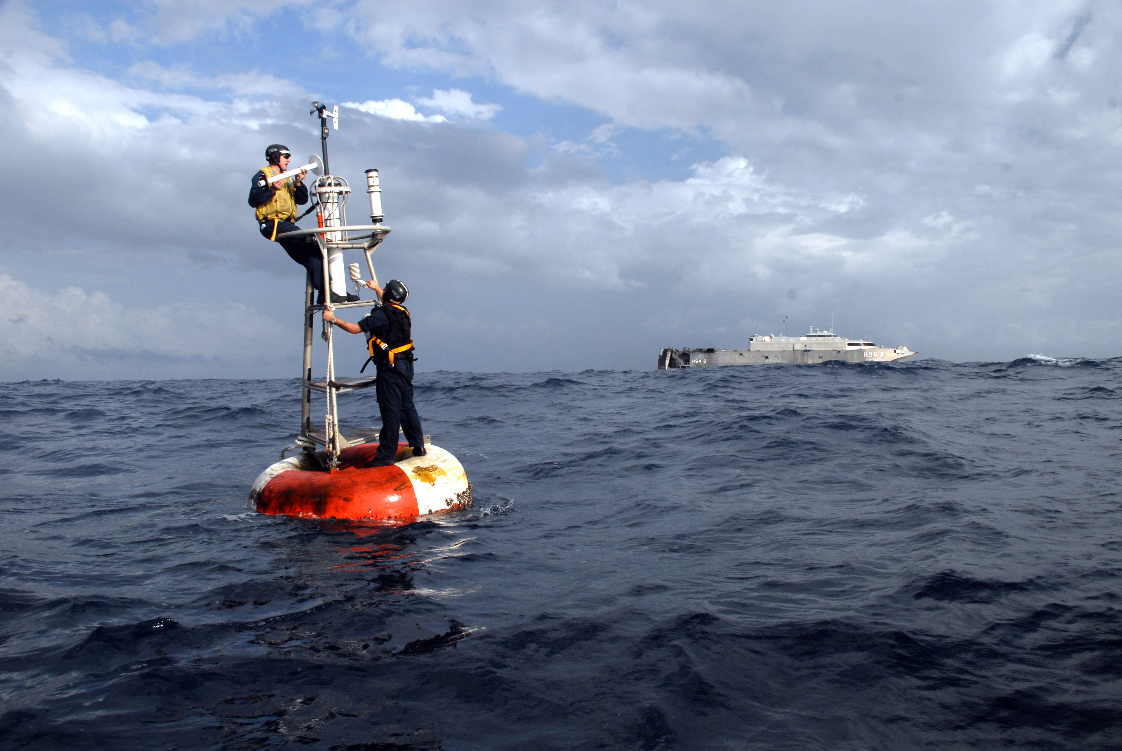 U.S. Navy Minemen 2nd Class Matthew Rishovd (left) and Kody Egelhoff, both assigned to High Speed Vessel Two Swift, repair a National Oceanic and Atmospheric Administration buoy in the Atlantic Ocean on Jan. 25, 2008. The sailors are fixing the buoys to help NOAA collect weather data that could help predict hurricanes and other inclement weather.